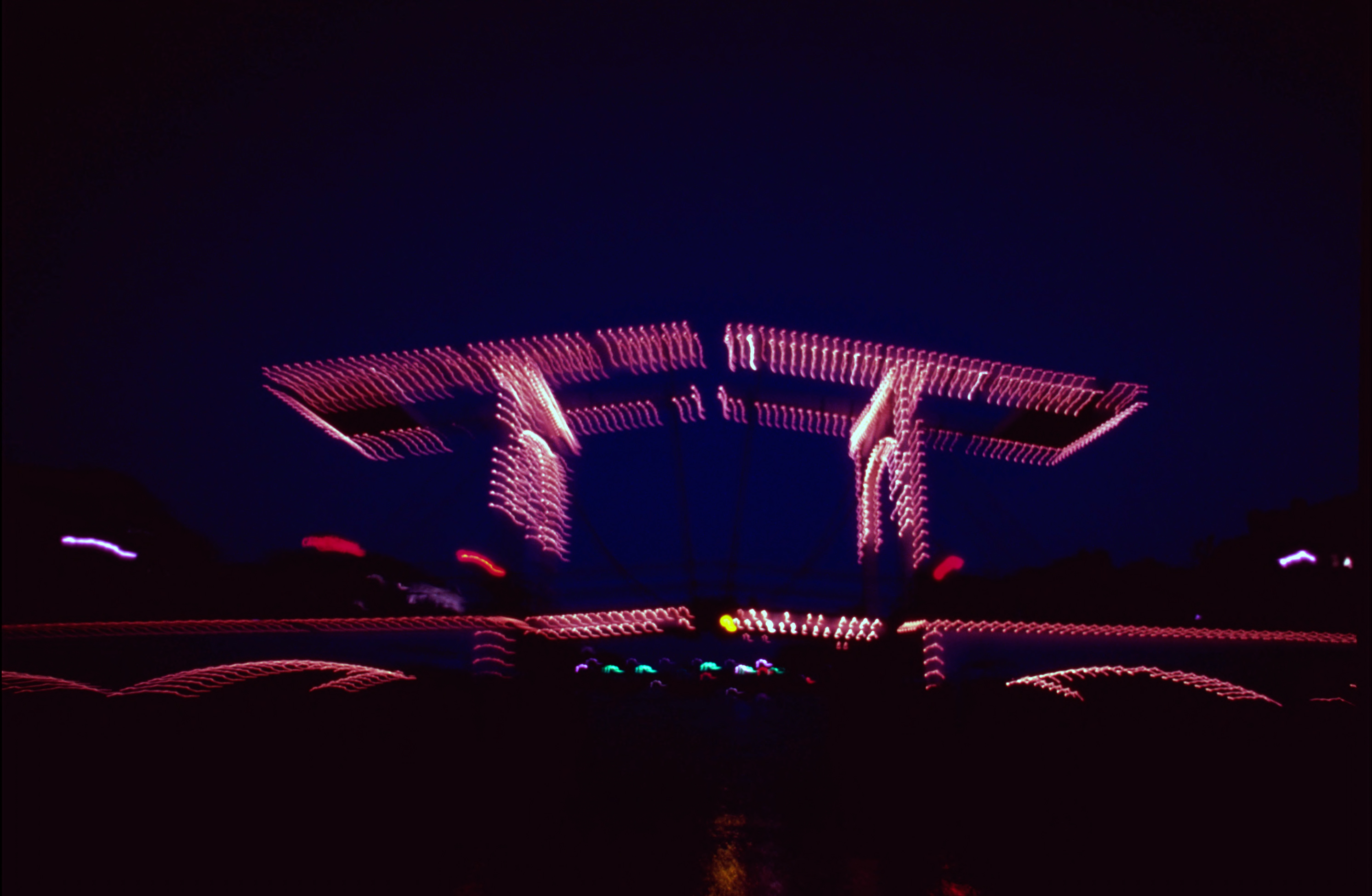 Light painting analog image, made from a moving boat, no tripod